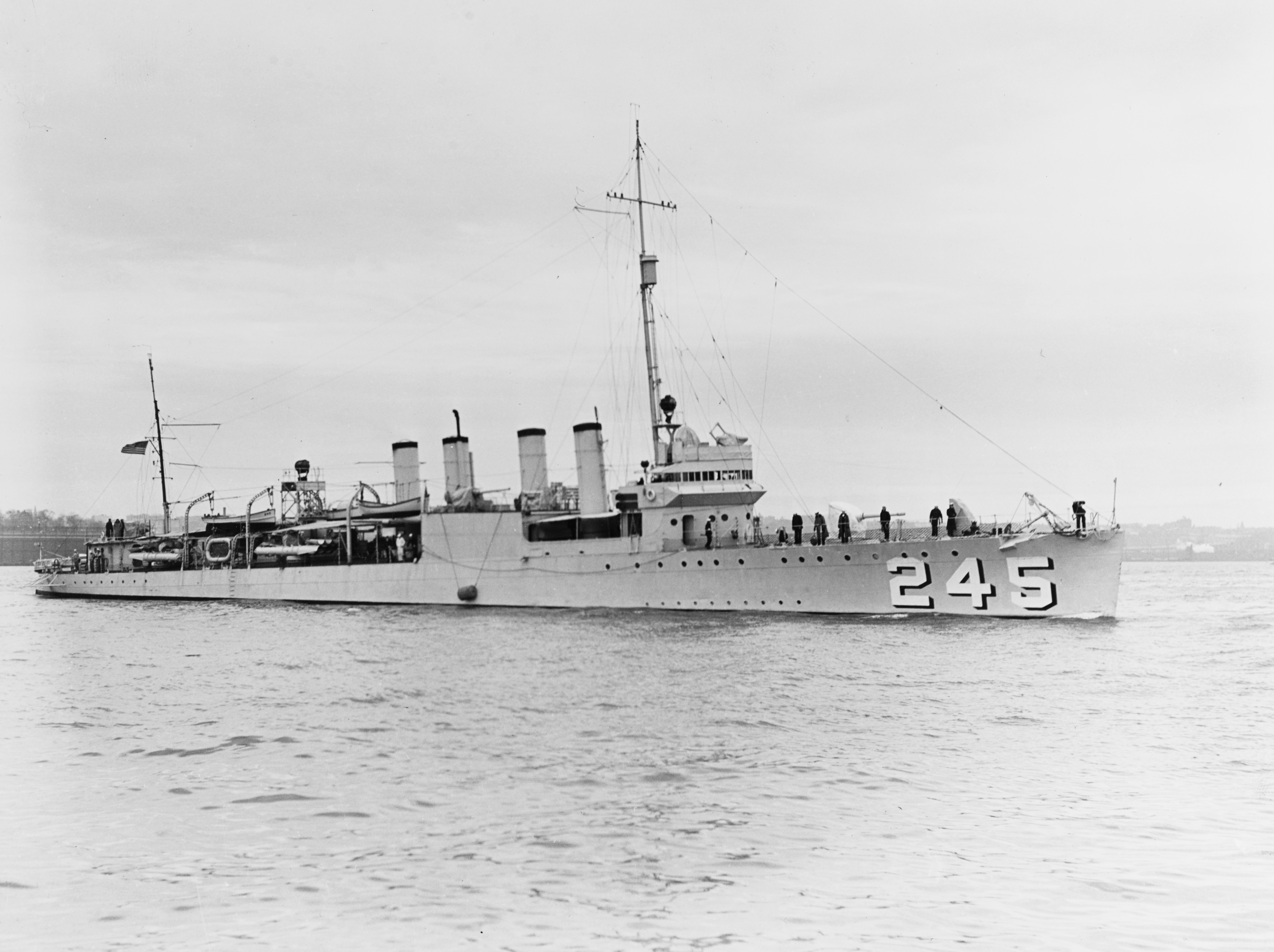 The U.S. Navy destroyer USS Reuben James (DD-245) on the Hudson River, New York (USA), on 29 April 1939.